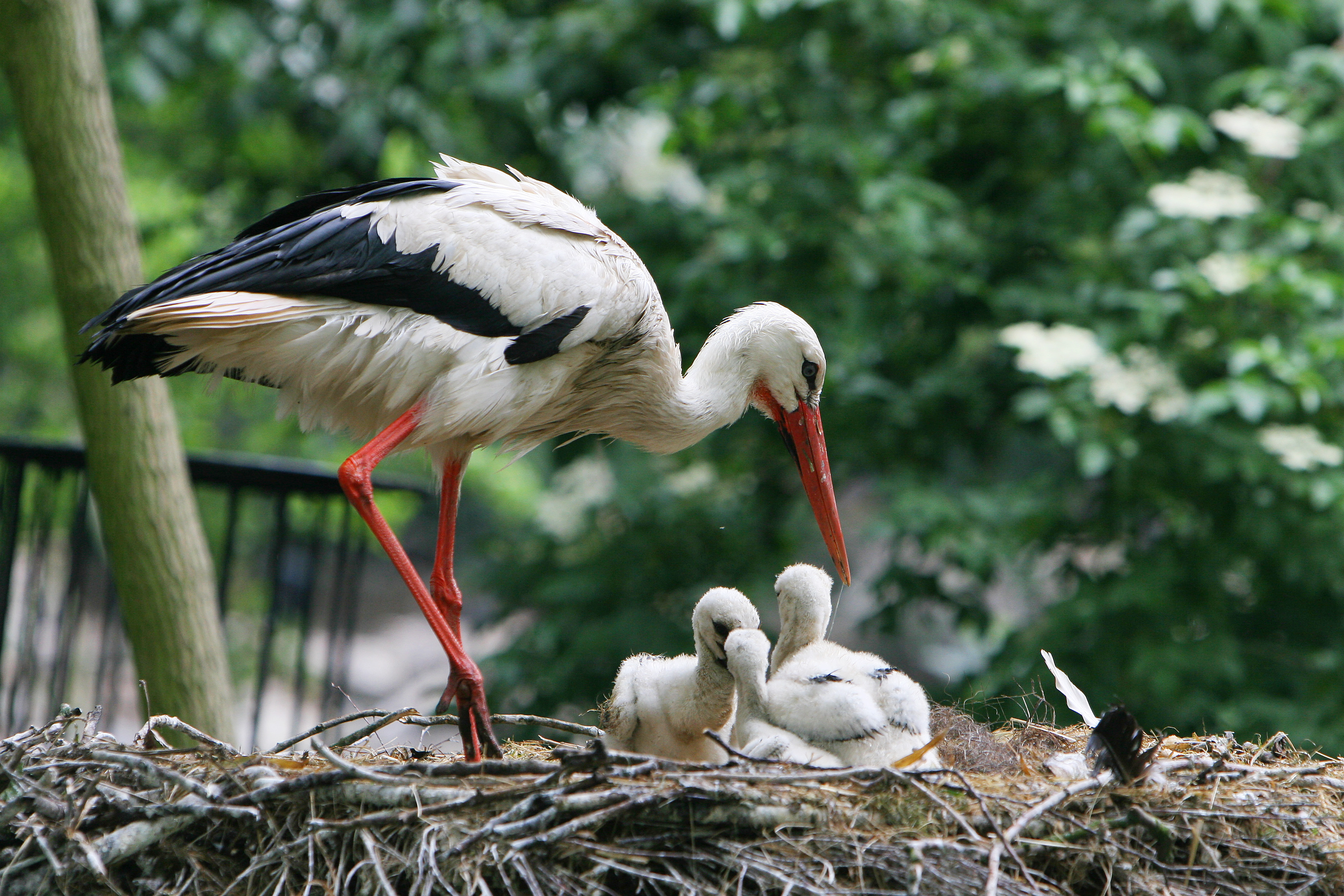 White Storks at Artis Zoo, Netherlands. Parent with three chicks, one small and two bigger chicks.